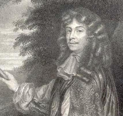 David Leslie, Lord Newark portrait